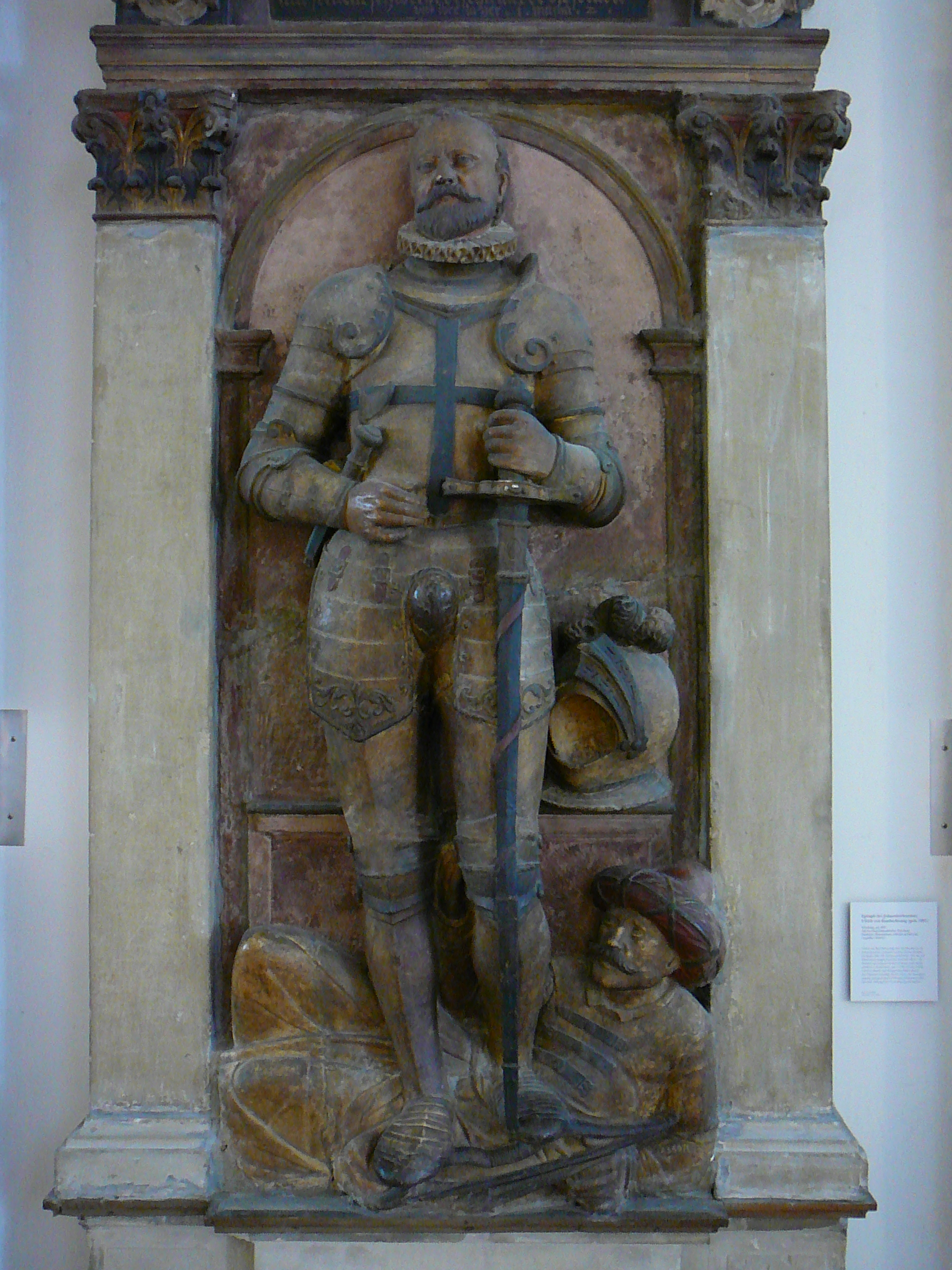 Epitaph of the Knight Hospitaller Ulrich von Rambschwang as victor over the Turks. Ulrich participated in the successful 1565 defense of Malta. From the Deutschhauskirche, Würzburg, Germany, around 1601; sandstone, coloured marble, slate. Today Bayerisches Nationalmuseum, München, inventory number R 2359